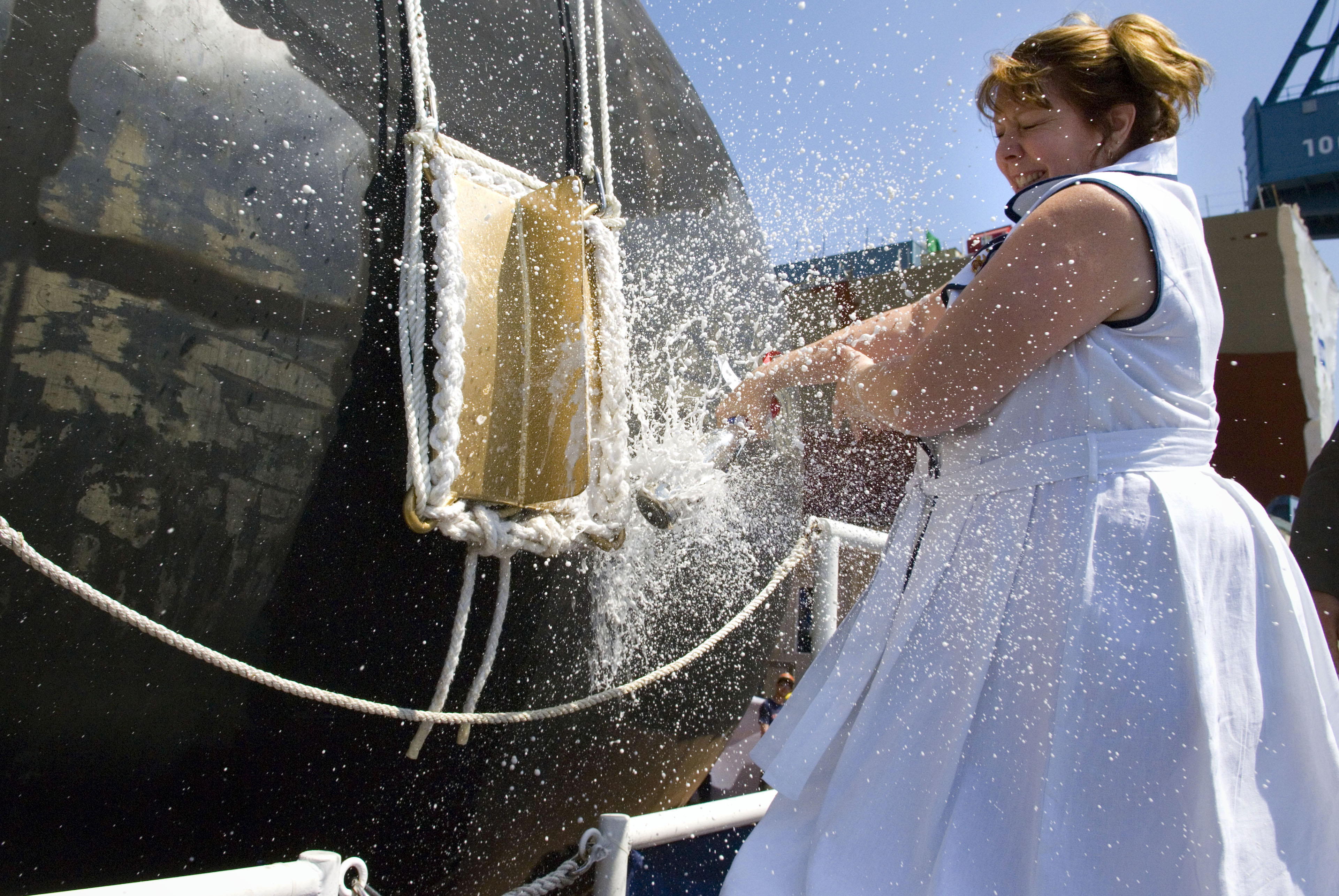 BATH, Maine (Aug. 1, 2009) Debra Dunham, mother of late Cpl. Jason Dunham and ship's sponsor breaks a bottle of champagne across the bow of the Arleigh Burke-class guided-missile destroyer Jason Dunham (DDG 109) during the ship's christening ceremony at General Dynamics Bath Iron Works in Bath, Maine. Dunham posthumously received the nation's highest military honor, the Medal of Honor for his actions on April 14, 2004 in Karabilah, Iraq. (U.S. Navy photo by Mass Communication Specialist 2nd Class Kevin S. O'Brien/Released)